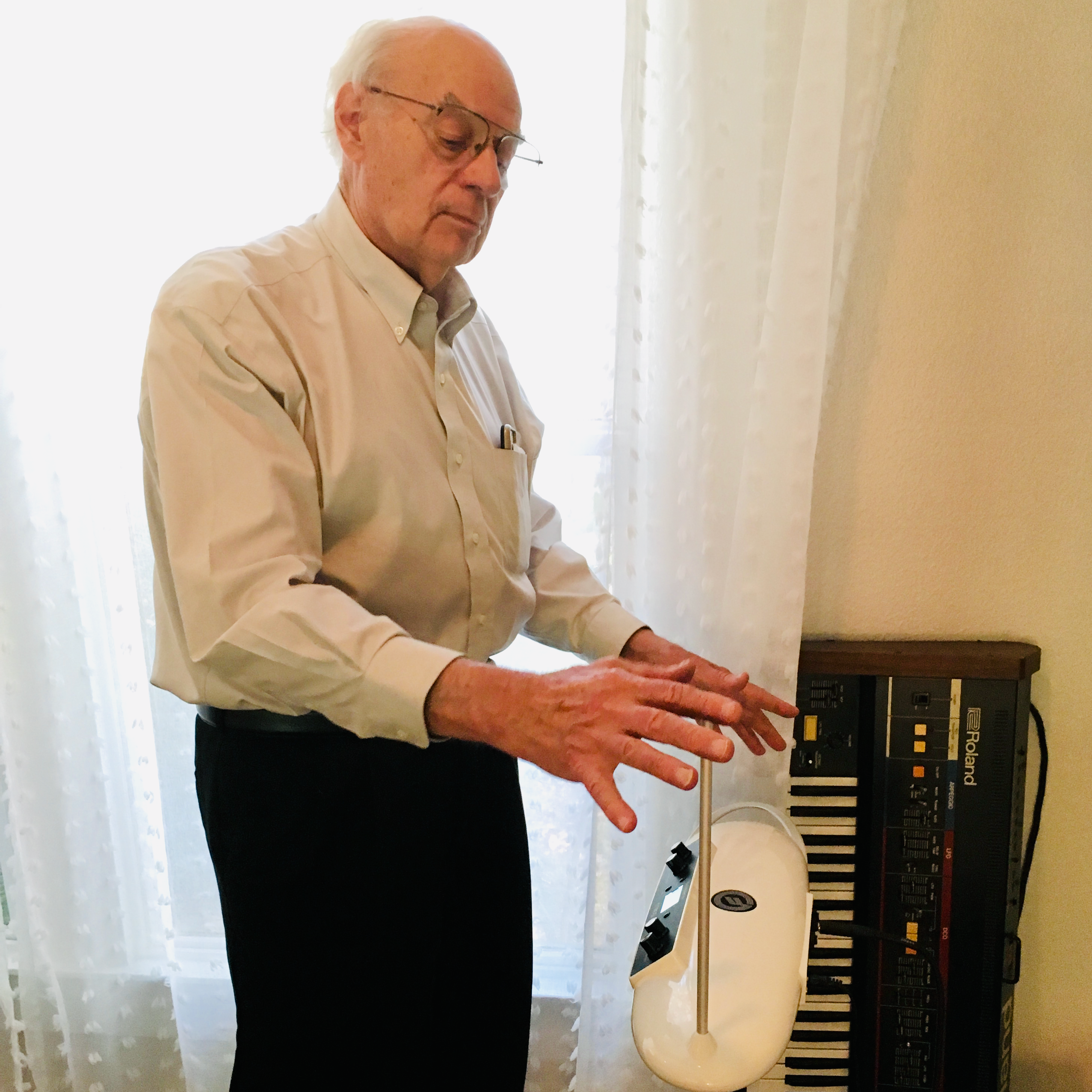 John H. Lienhard plays a Moog Theremin, 2016.